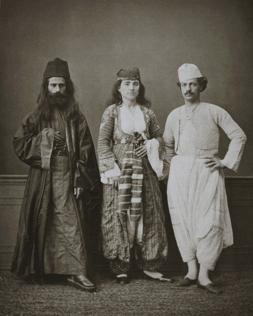 Traditional costumes of (from right to left) a Christian resident of Magossa (Famagusta, Cyprus), a Christian woman of Magossa, and a Greek monk of the Monastery of Tchiko, near Lefke (Lefka, Cyprus). From the album Les costumes populaires de la Turquie en 1873 (Popular costumes of Turkey in 1873). This album depicting ethnic costumes from throughout the Ottoman Empire was commissioned by the Ottoman government for the 1873 International Fair in Vienna and was authored by Hamdi Bey and Victor Marie de Launay, an Ottoman official, amateur historian, and artist of French origin.